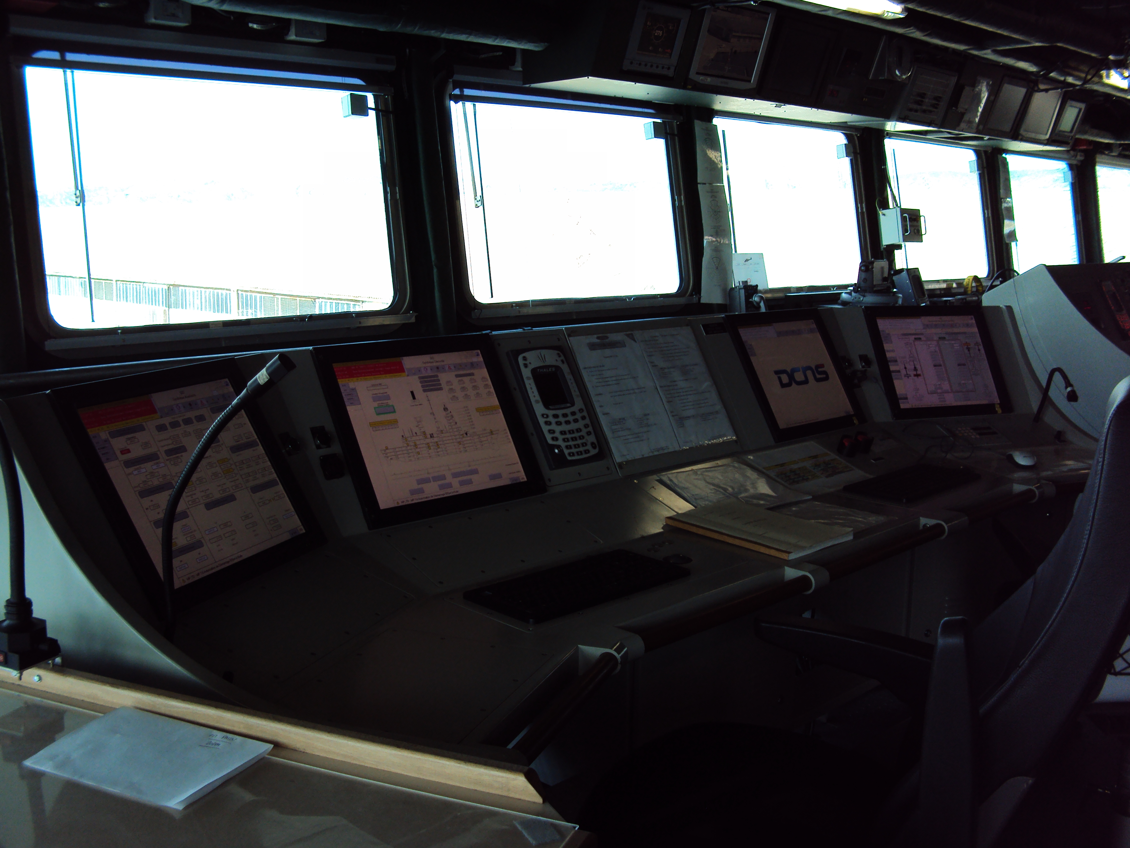 Passerelle du Forbin